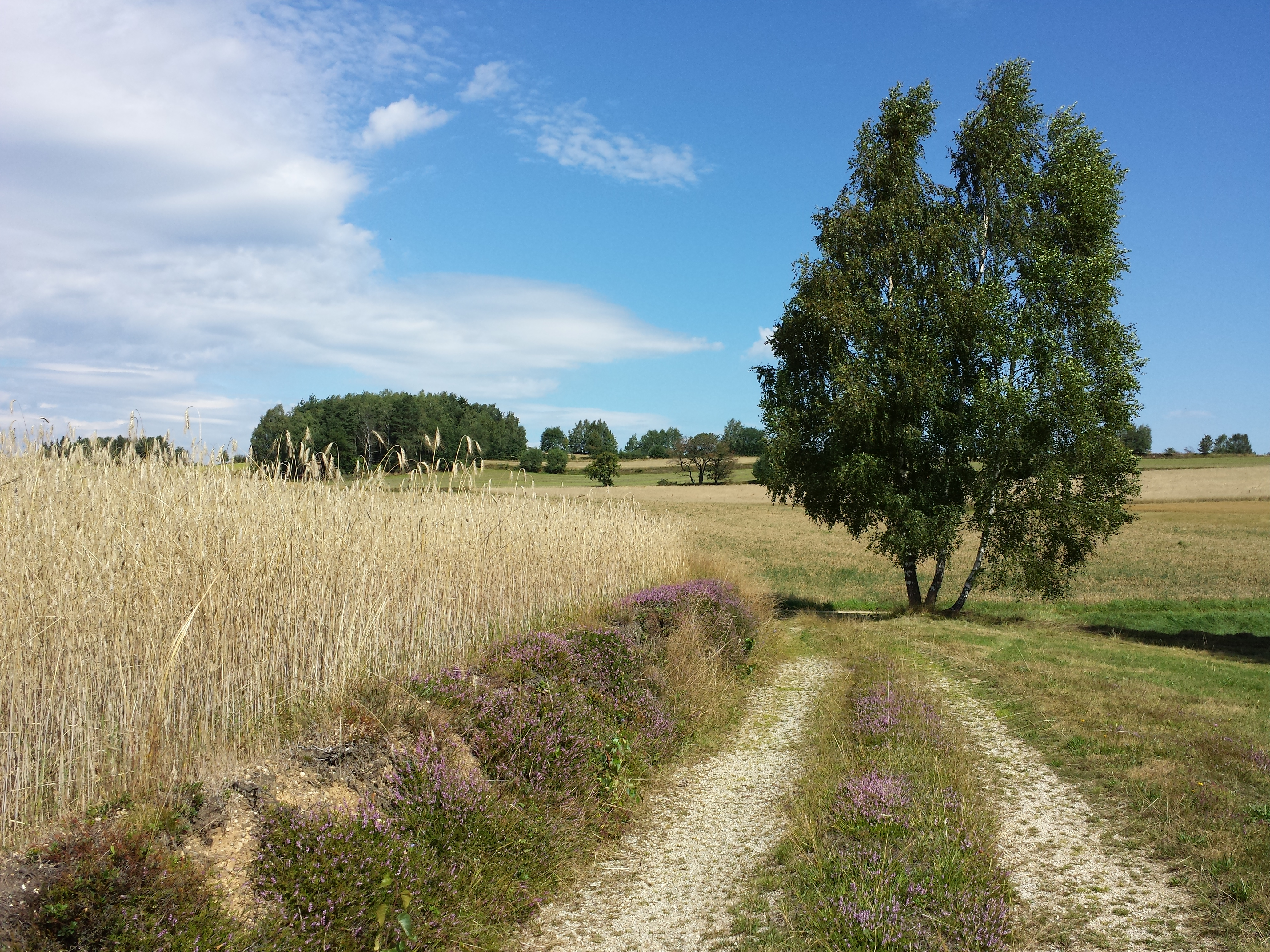 Cultivated landscape with lynchets near Griesbach